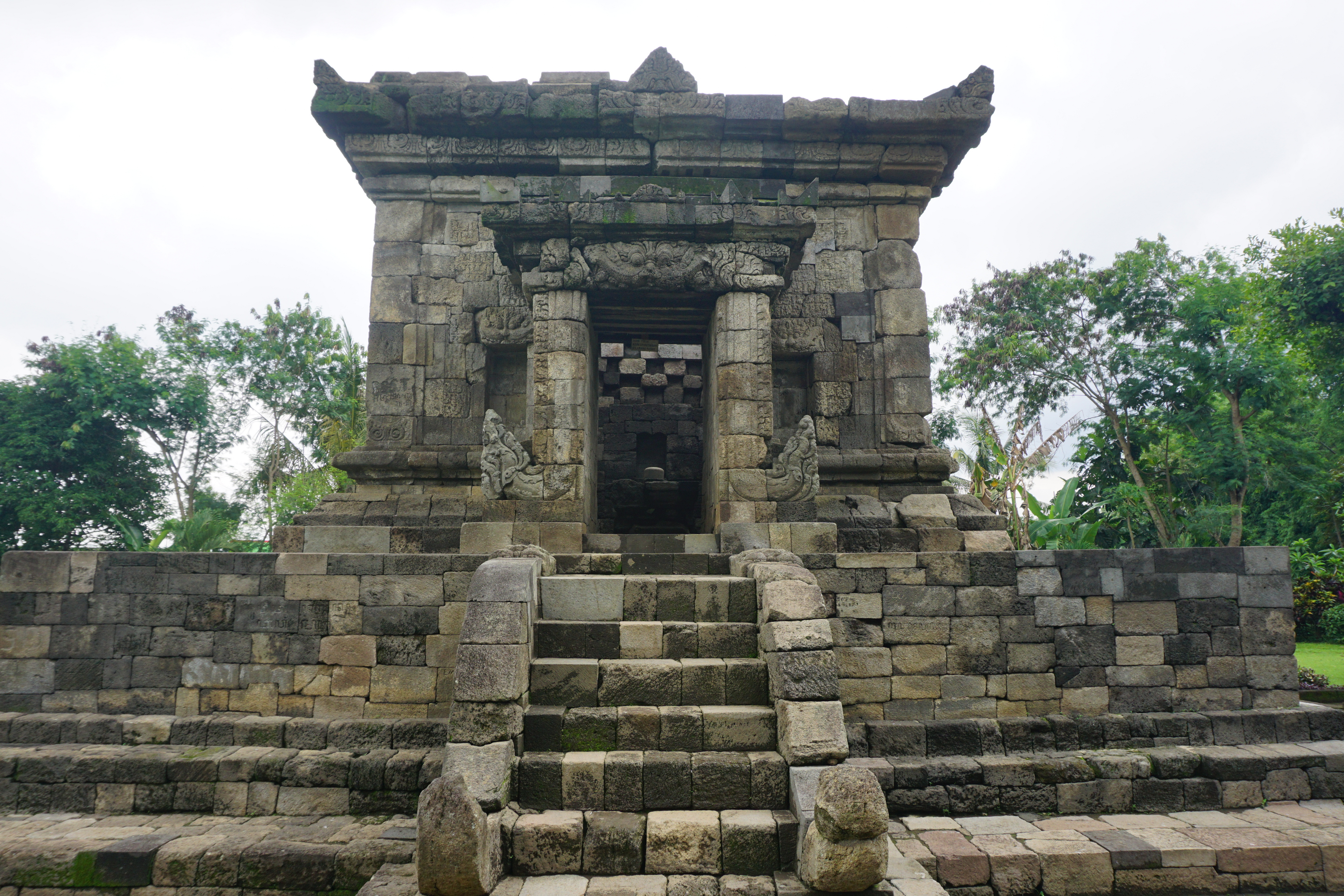 039 Stairway to Inner Sanctum, Candi Badut, Malang Candis, East Java Malang, East Java